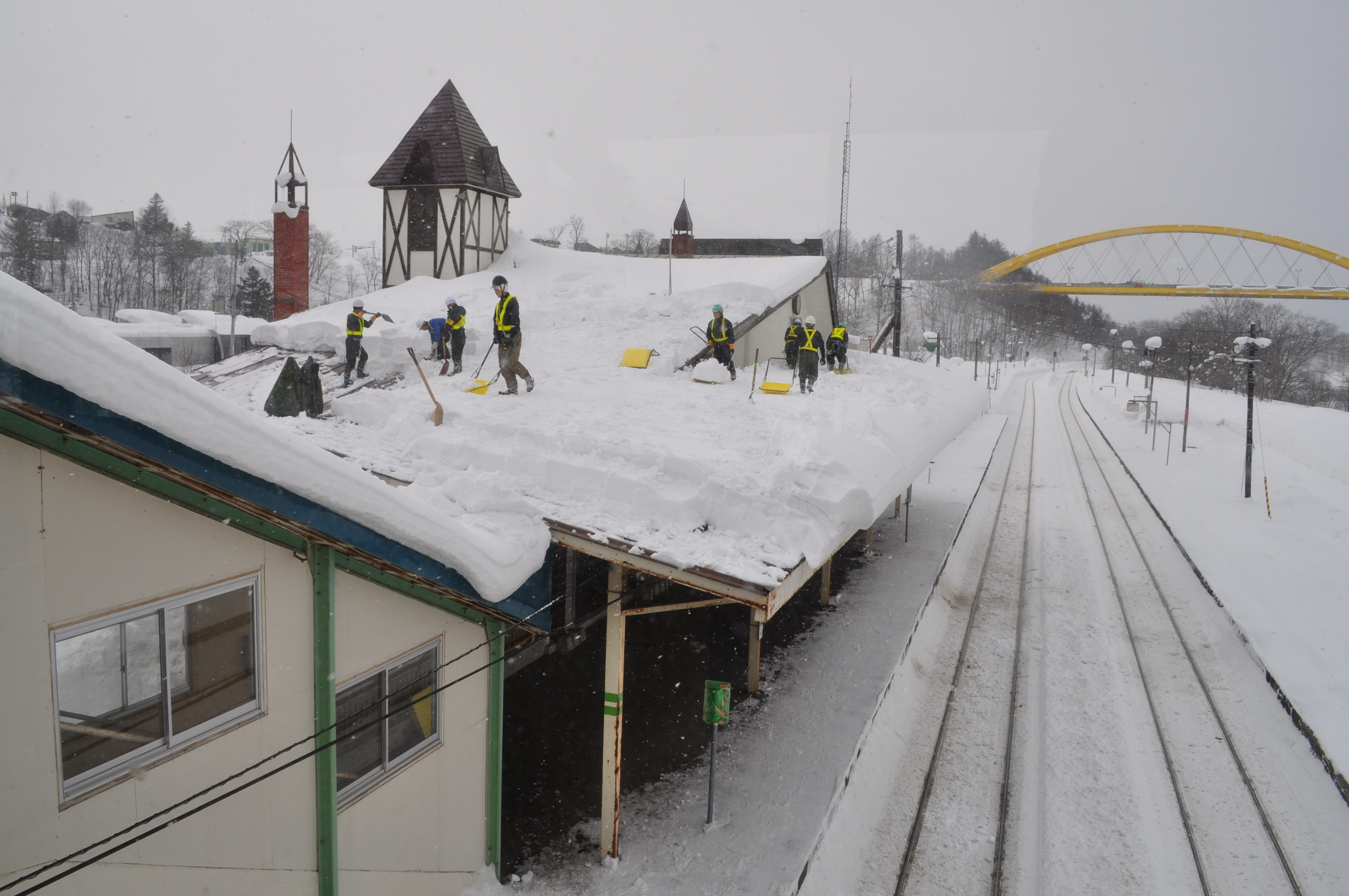 Niseko Station. "Day trip to Niseko ski resort, Hokkaido." Nikon D5000